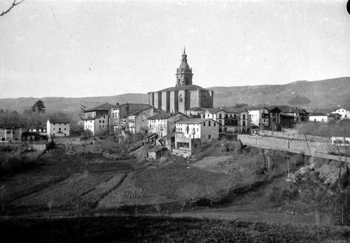 General view of Usurbil